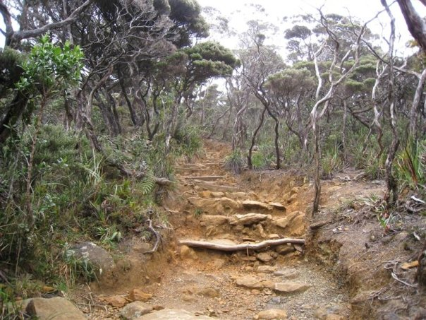 This is how the way up to Mount Kinabalu's summit.